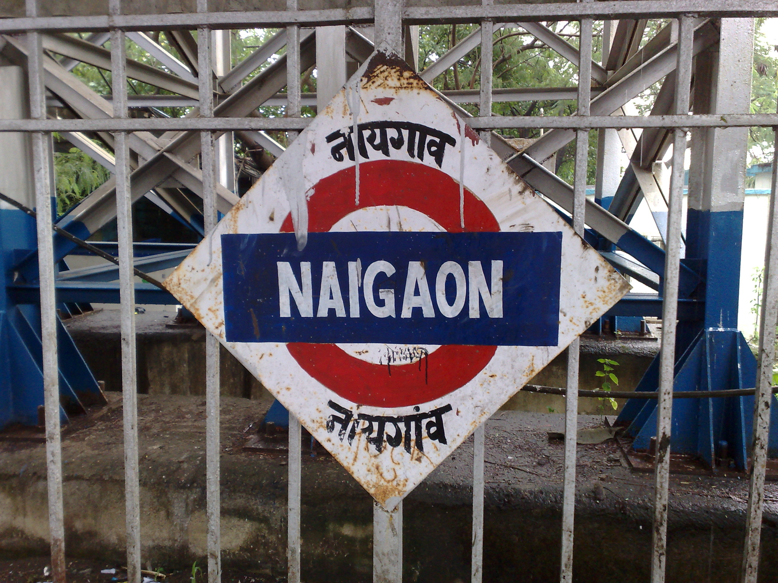 Naigaon platformboard